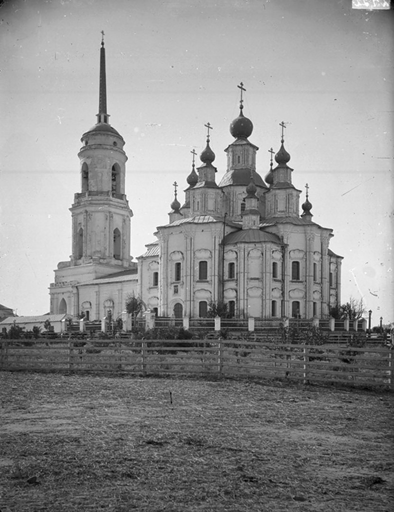 Uspensky Cathedral in Dubovka, the capital of the Volga Cossacks (consecrated in 1796)